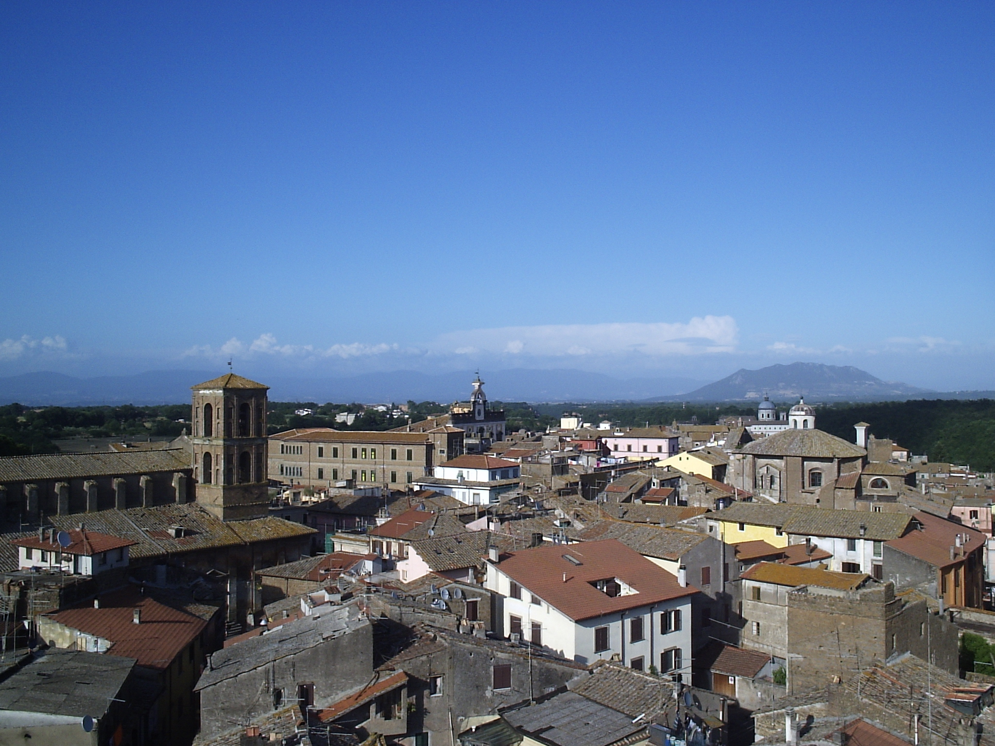 View of de downtown of Nepi from the higest tower of the castle